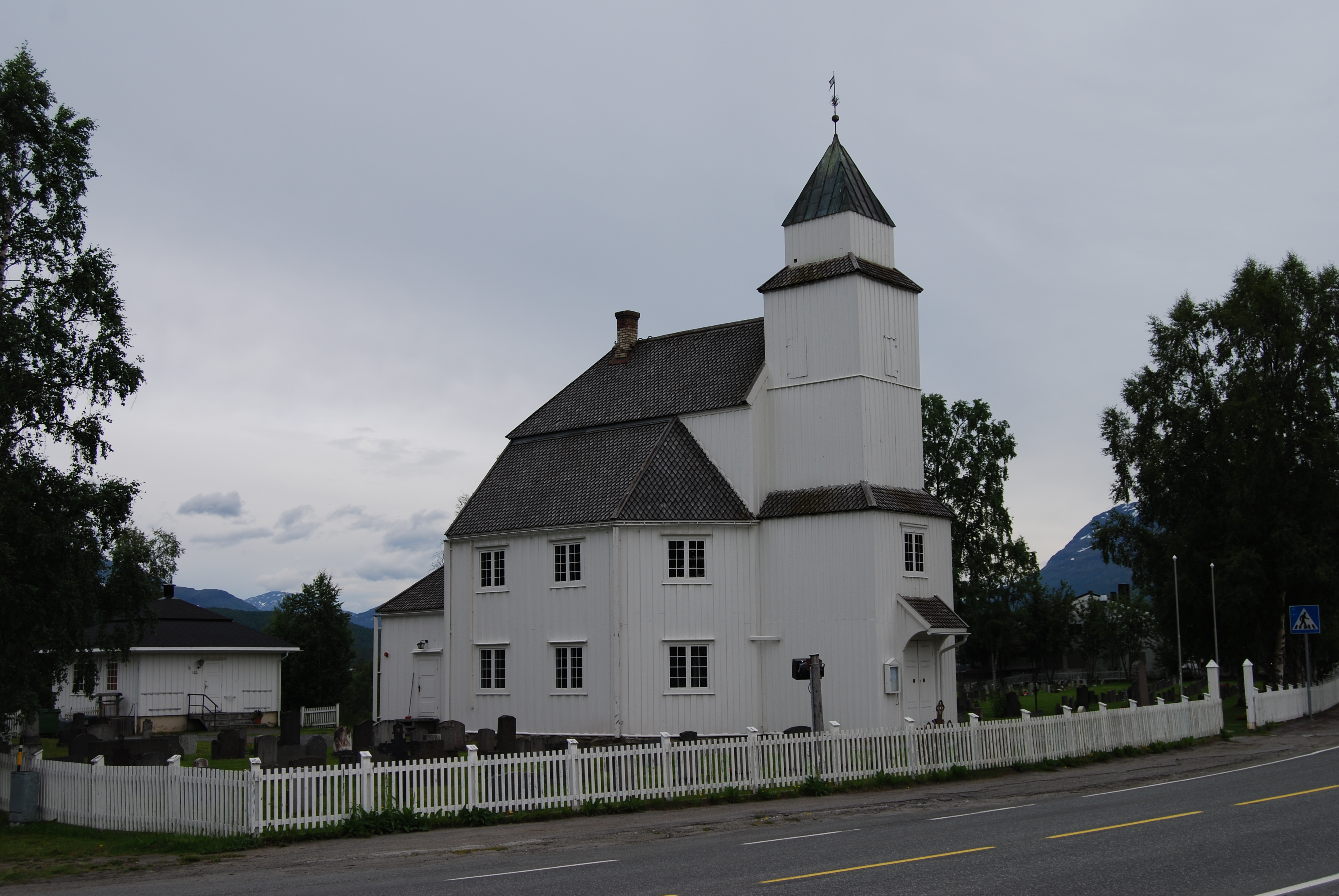 Bardu church, Bardu municipitaly, Norway.